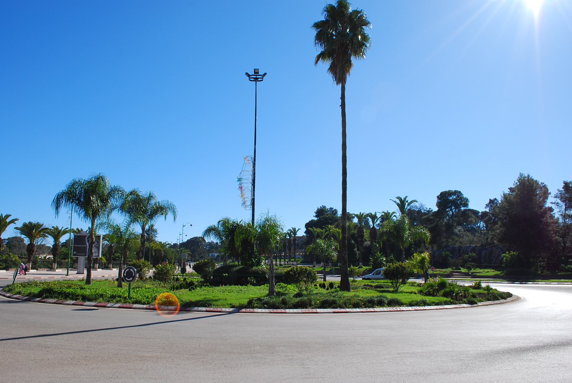 Ben slimane city